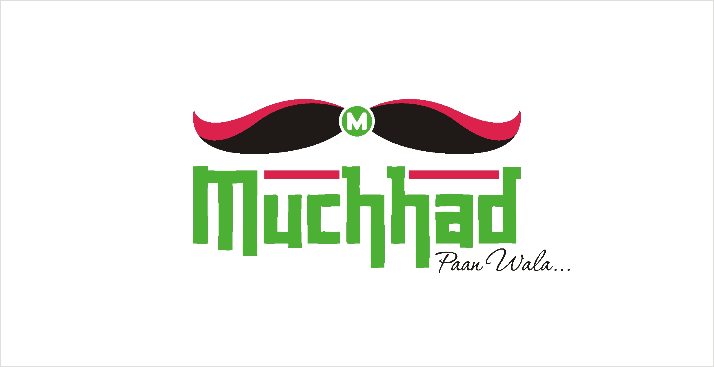 logo of Muchhad